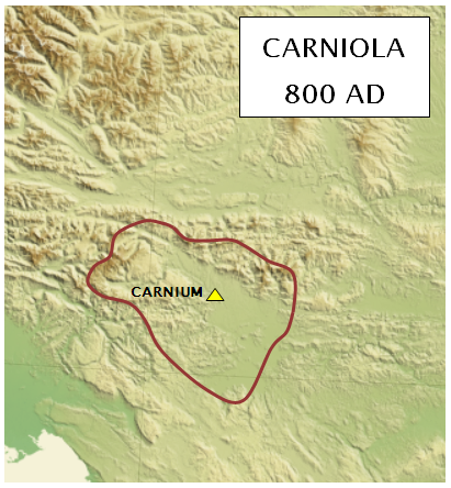 Probable territory of Karniola (not Krajnska) around year 800 AD.